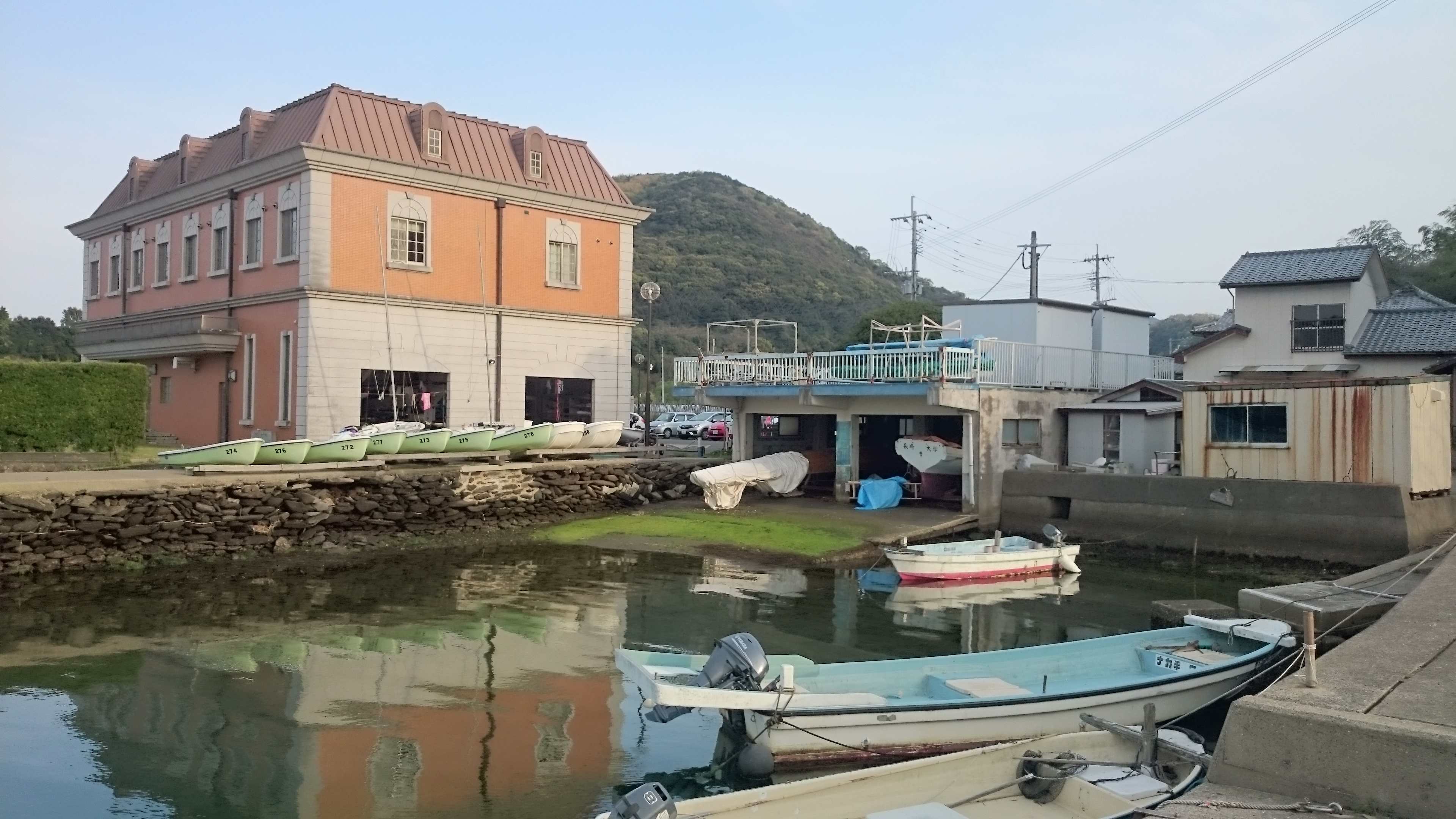 Nagasaki University guesthouse for staff and students